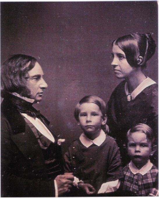 The Longfellow Family. Longfellow with his second wife Fanny Appleton and two children.